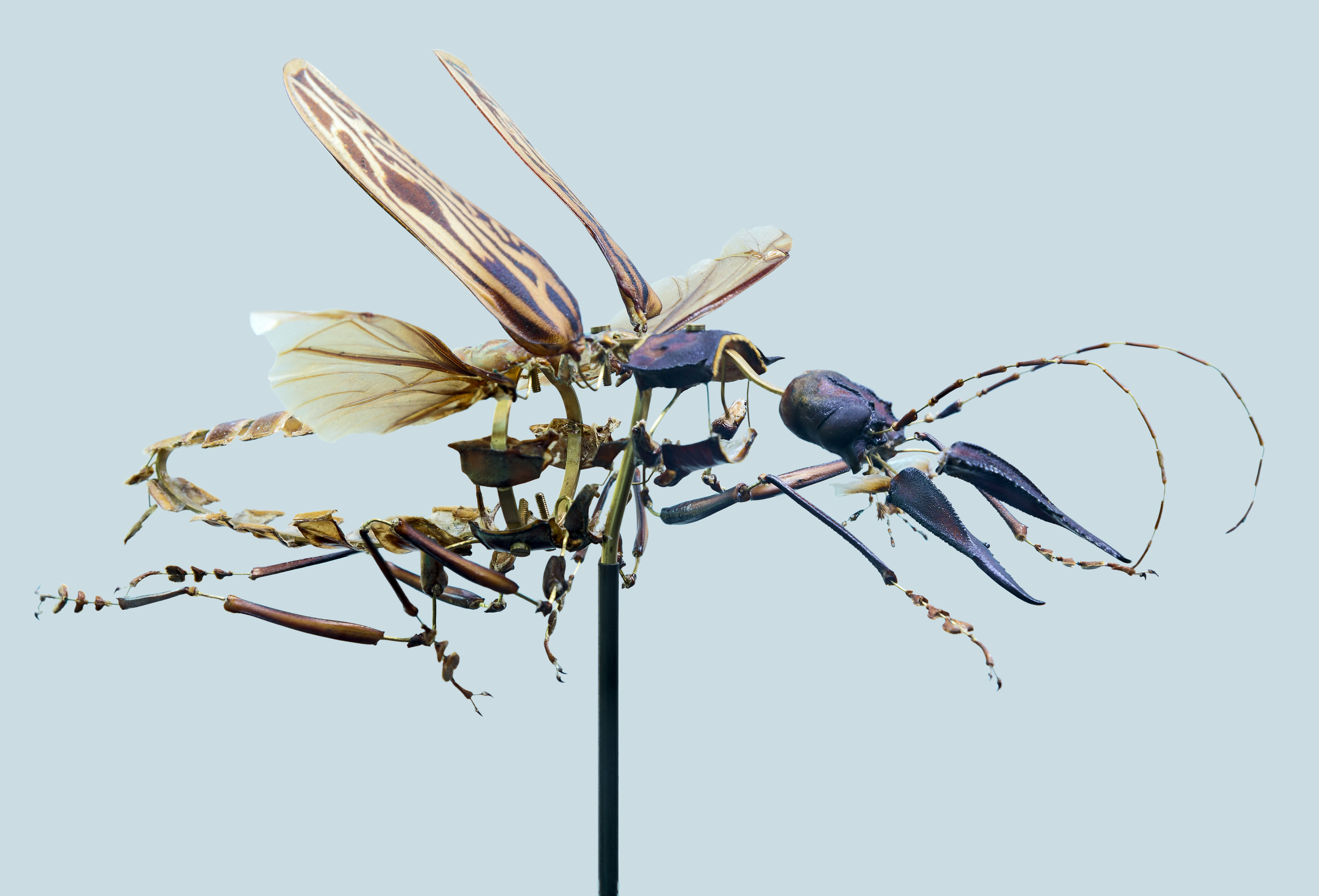 ♂ Male, prepared in the Beauchene technique. Locality : French Guiana.